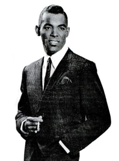 Trade ad for Chuck Jackson's single "If I Didn't Love You".To better adapt it to his respective Wikipedia article, the ad was cropped and cleaned in a graphics editing program. The original can be viewed at the source below.